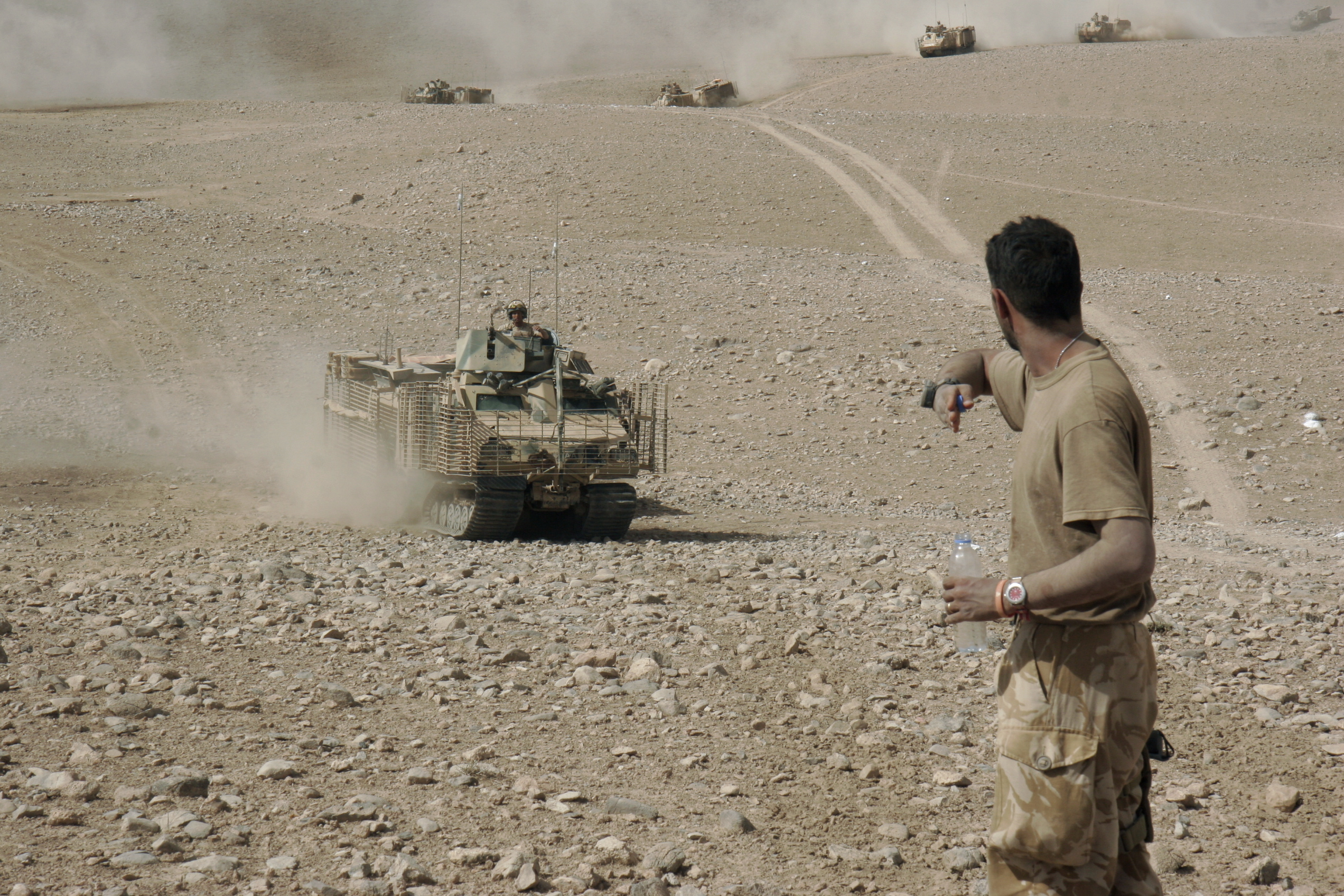 British Army Maj. Khashi Sharifi from The Queen's Royal Lancers, Viking Group, coordinates his vehicles at a security stop, Aug. 12, 2008 in the Helmand Province of Afghanistan. His unit is conducting security operations for a new turbine being moved from the Kandahar Airfield to the Kajaki Dam.